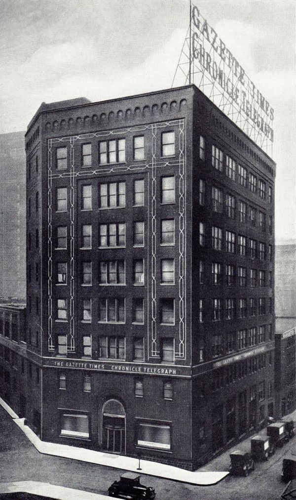 Gazette Times and Chronicle Telegraph Building, Pittsburgh, Pennsylvania. Opened in February 1915, the building was home to the Gazette Times and Chronicle Telegraph newspapers from 1915–1927, the Sun-Telegraph from 1927–1960, and the Post-Gazette from 1960–1961. It was demolished in the fall of 1963. The U.S. Steel Tower was built over the site a few years later.